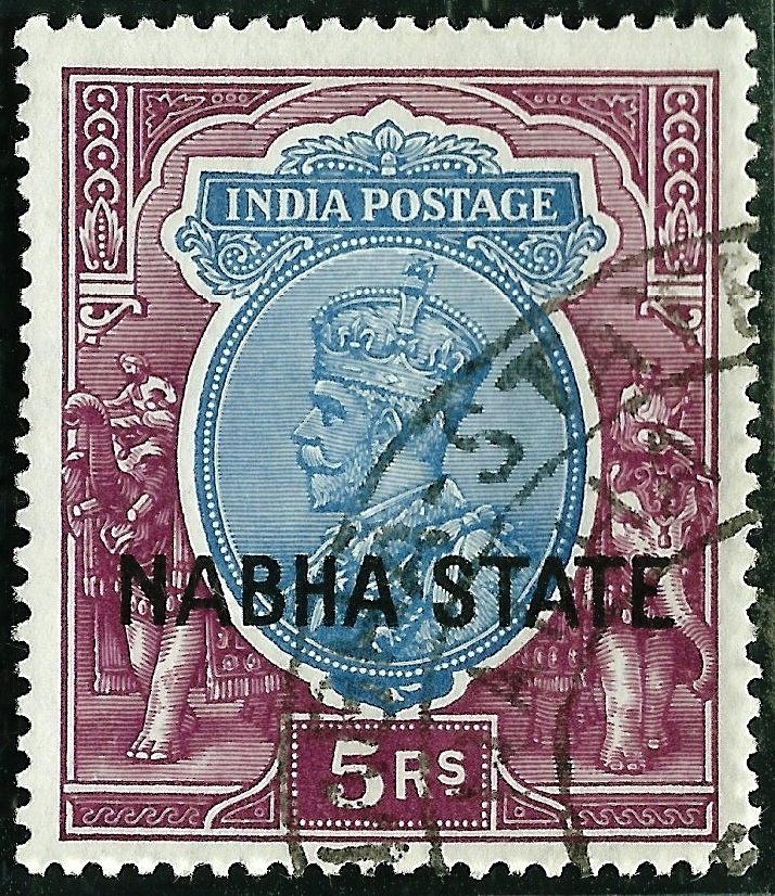 Five Rupees King George V Head (ultramarine & violet colours, inverted watermark) overprinted with "NABHA STATE" (Typeface 4) (1932). Used condition, part of cancellation seen. Postage stamp of Nabha state, an Indian convention state in the Punjab. Ser No 72 for Nabha in Stanley Gibbons Stamp Catalogue Commonwealth & British Empire Stamps (1840-1970). (2008). London. Ref pp 286-287. Own work. From the collection of Brig A.P. Singh (self).